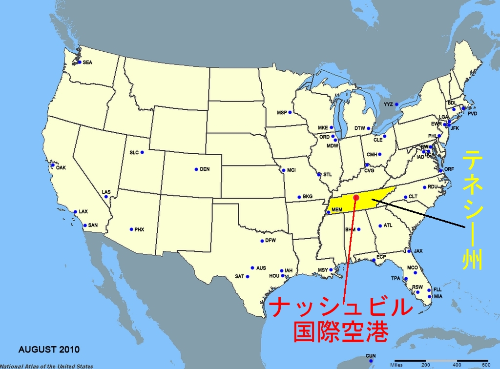 This is the KBNA location map in Japanese